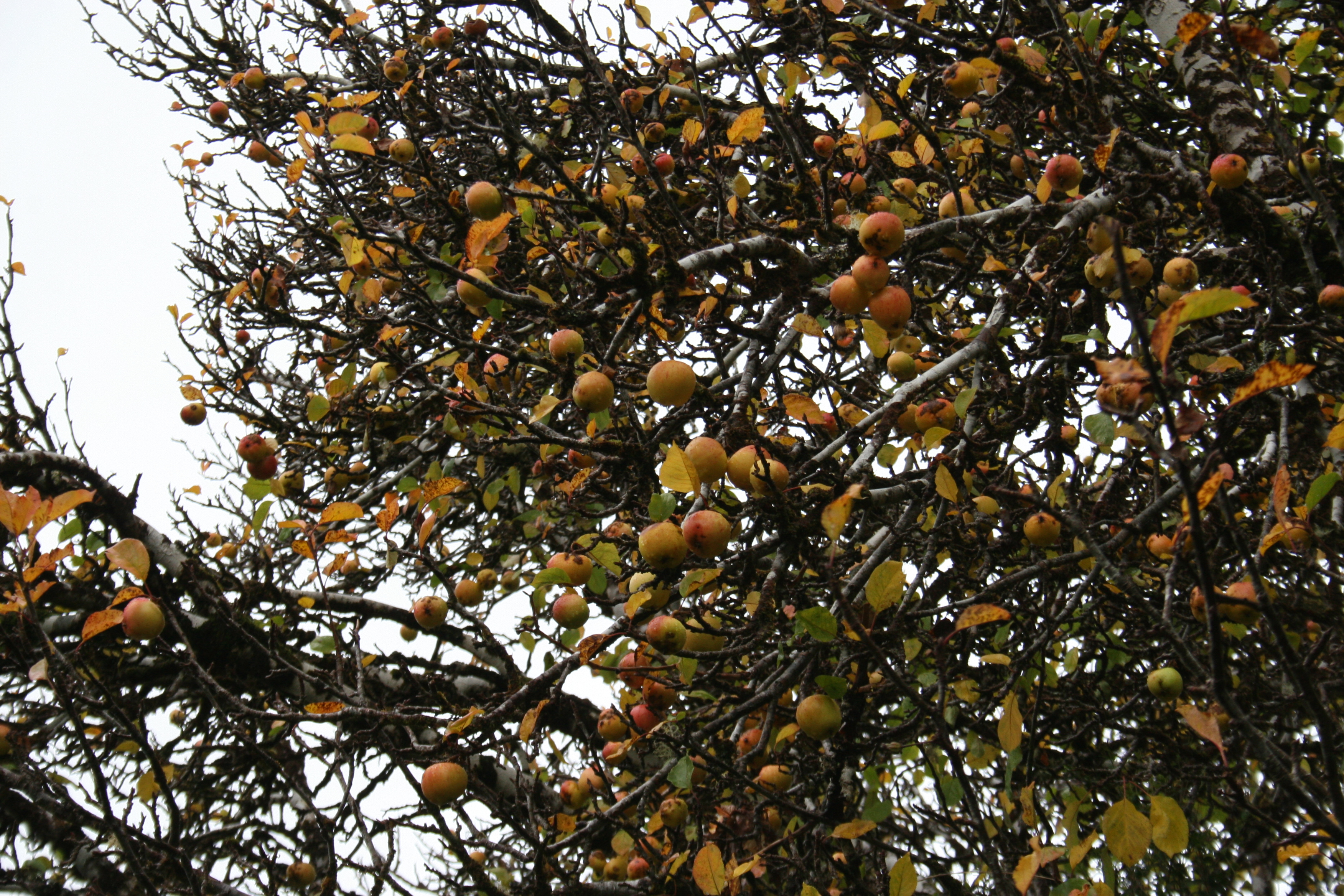 Apple tree on Isla San Pedro, a private island found off the southeastern tip of Chiloe.